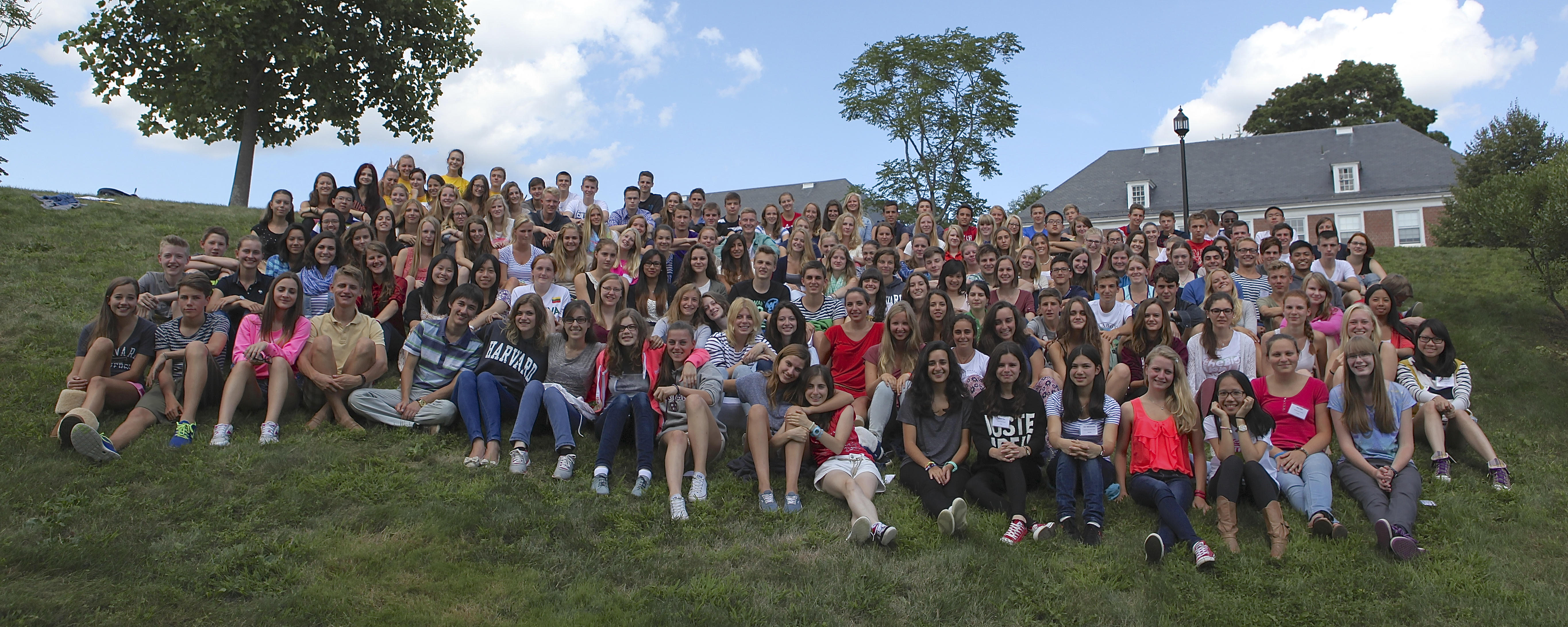 The 2013/2014 class of ASSIST exchange students at Pomfret School